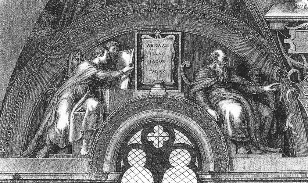 Abraham - Isaac - Jacob - Judah by Michelangelo Buonarroti, as engraved by Adamo Ghisi. Engraving of the original (produced 1511-12, destroyed 1534-41). Michelangelo produced the original fresco in the Sistine Chapel between 1511 and 1512. He destroyed it when he extended the painting of the Last Judgment to the whole wall between 1534 and 1541. While it existed, Adamo Ghisi (Italian engraver, 1530-1585) AKA Adamo Scultori (Mantovano) made an engraving and a drawing of it. This is a scan of the engraving. Description from Abraham - Isaac - Jacob - Judah by MICHELANGELO Buonarroti on Web Gallery of Art (WGA): "In the lunettes situated at the top of the altar wall, Michelangelo painted the first two groups of ancestors of Christ according to the sequence of the Gospel of St Matthew: Abraham-Isaac-Jacob-Judah and Perez-Hezron-Ram. The two frescoes were destroyed when the artist decided to extend the painting of the Last Judgment to the whole wall. However, they are shown in two drawings reproducing the whole vault (now in the collections of Windsor castle and the Ashmolean Museum, Oxford) and in two engravings by Adamo Ghisi."